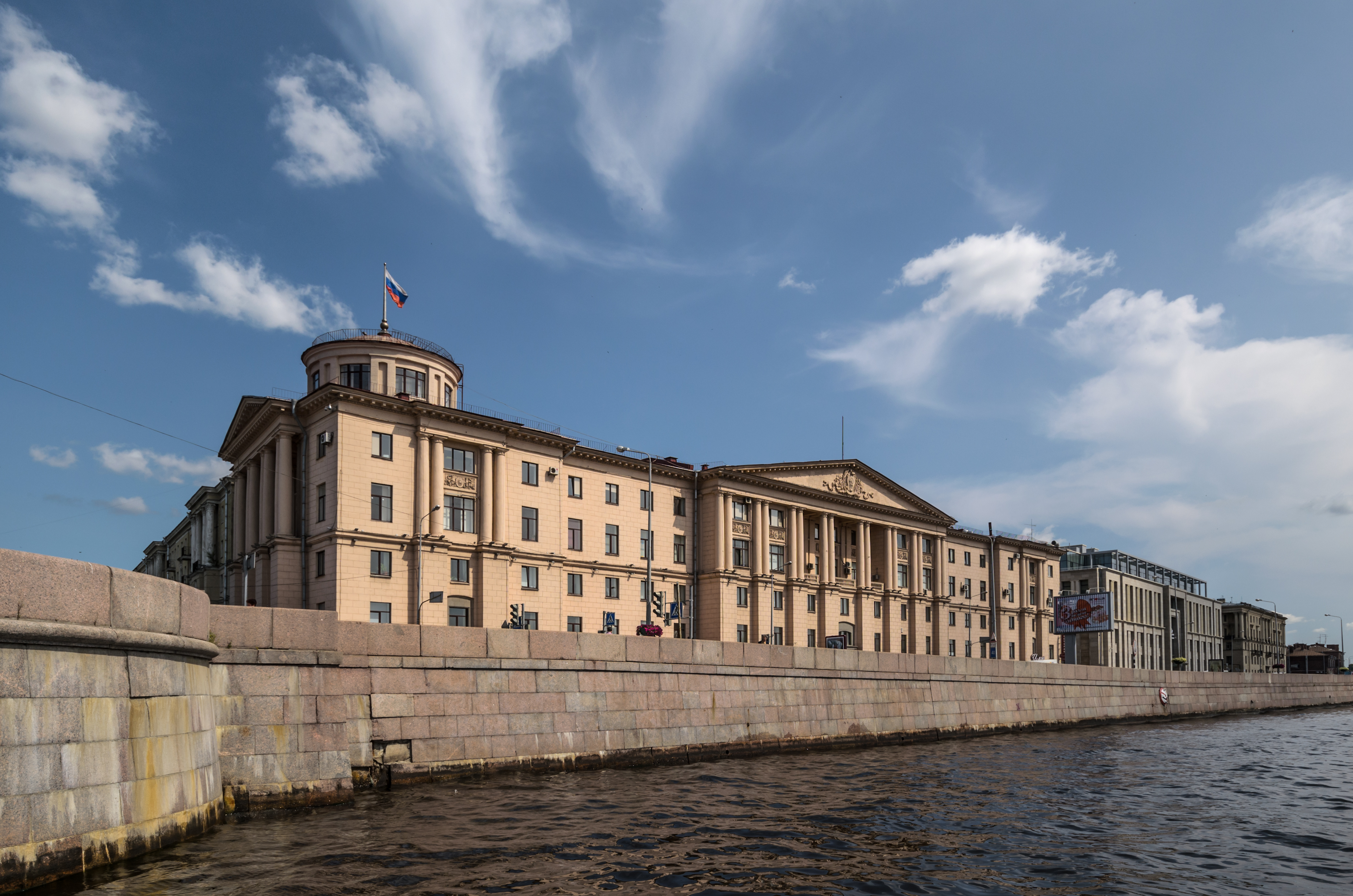 Kalininsky District Council at Arsenalnaya Embankment in Saint Petersburg